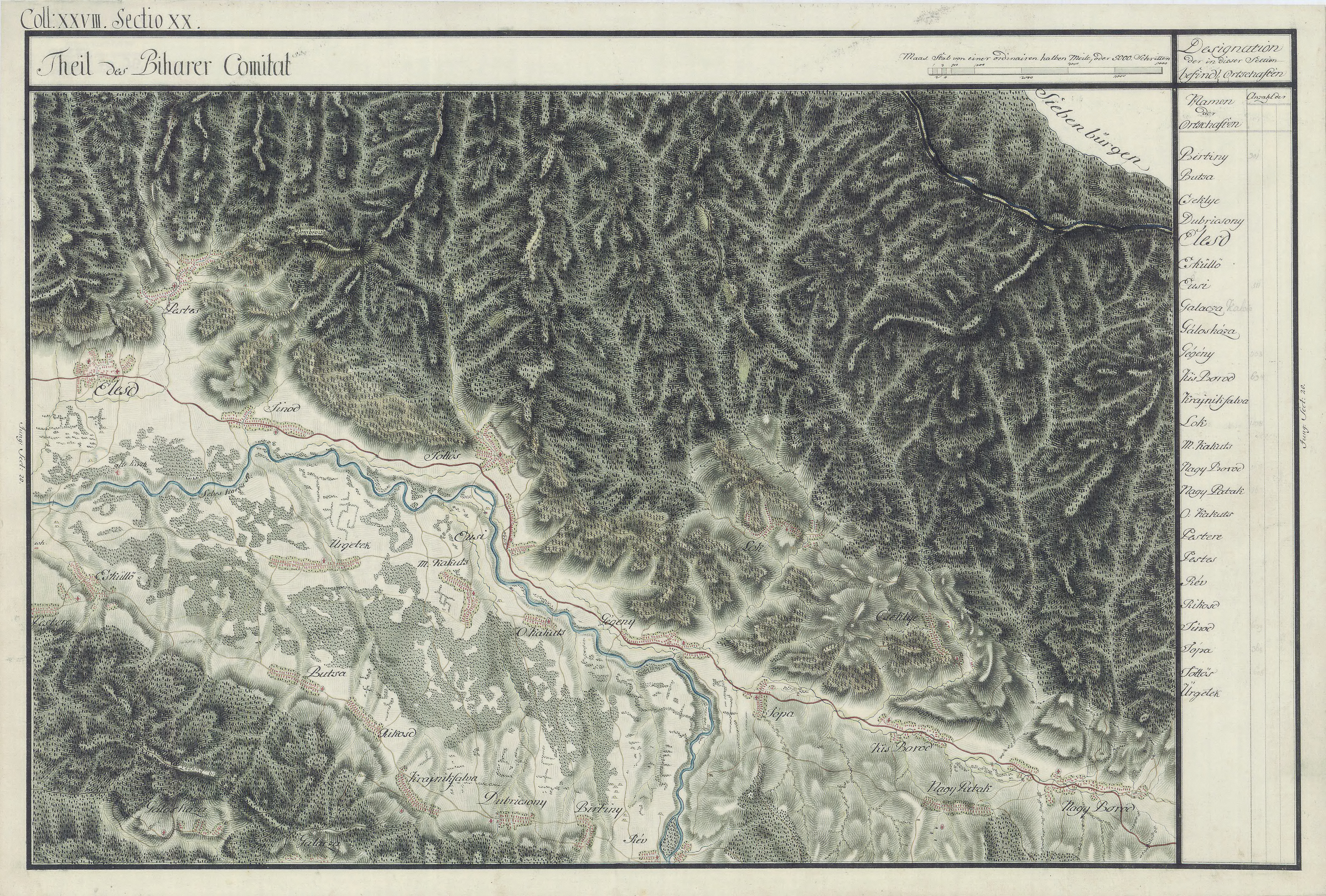 Bihor County, 1782-85. Josephinische Landesaufnahme pg.28-20